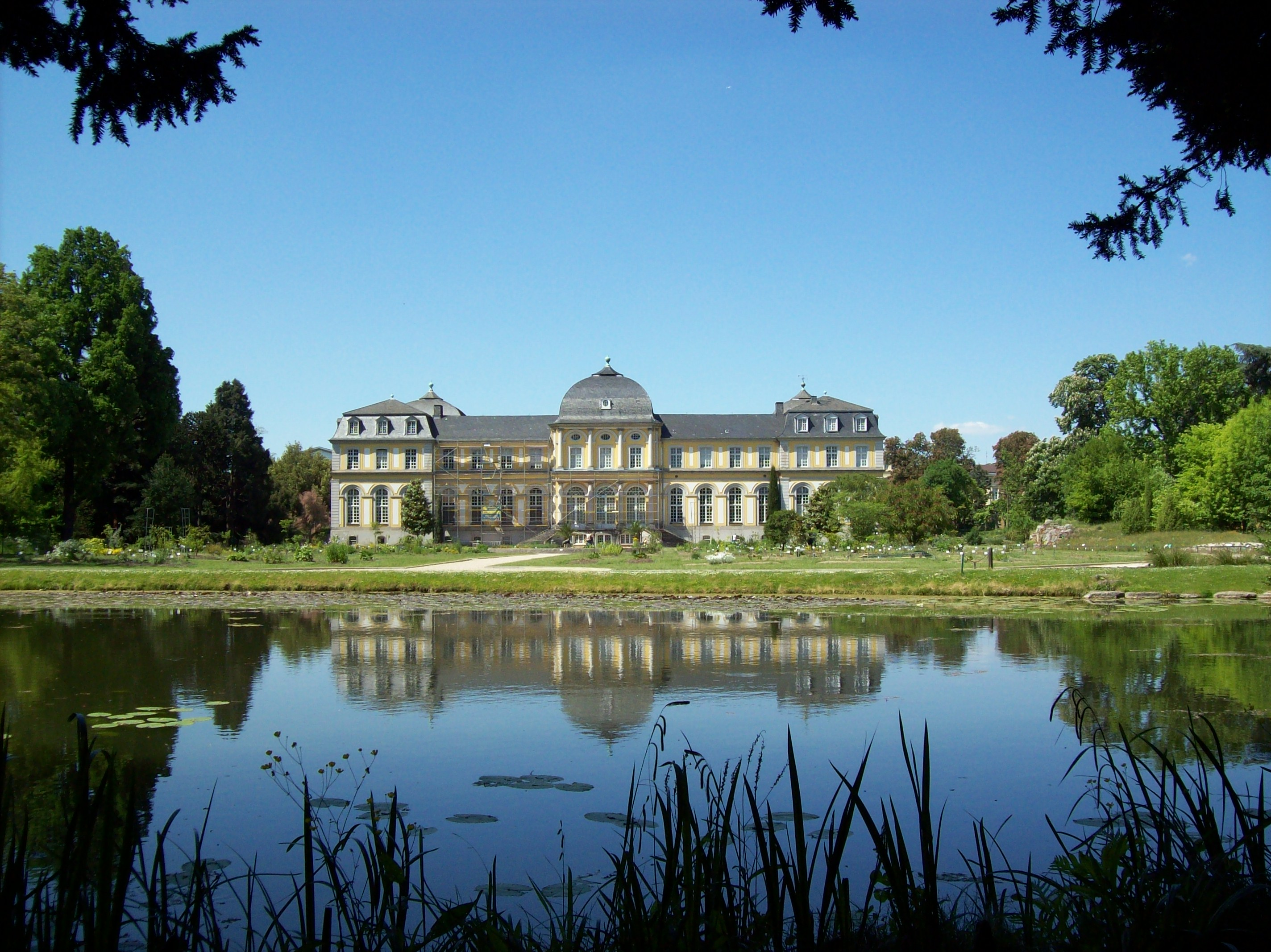 Lateral garden (southeast) facade of the Poppelsdorfer Schloss in Bonn, seen from the East